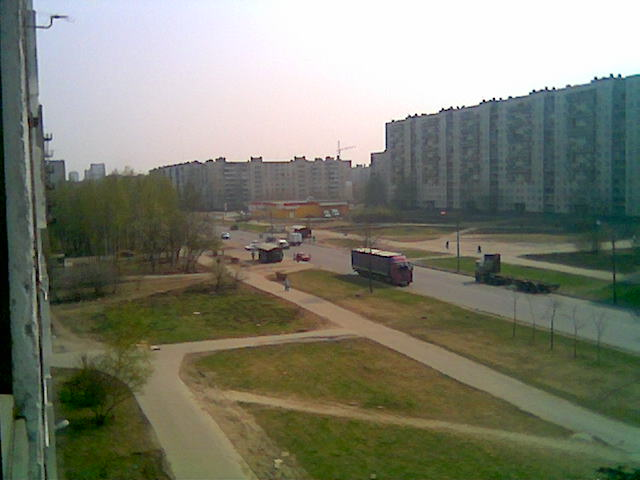 Iskrovsky prospect in Saint Petersburg, Russia